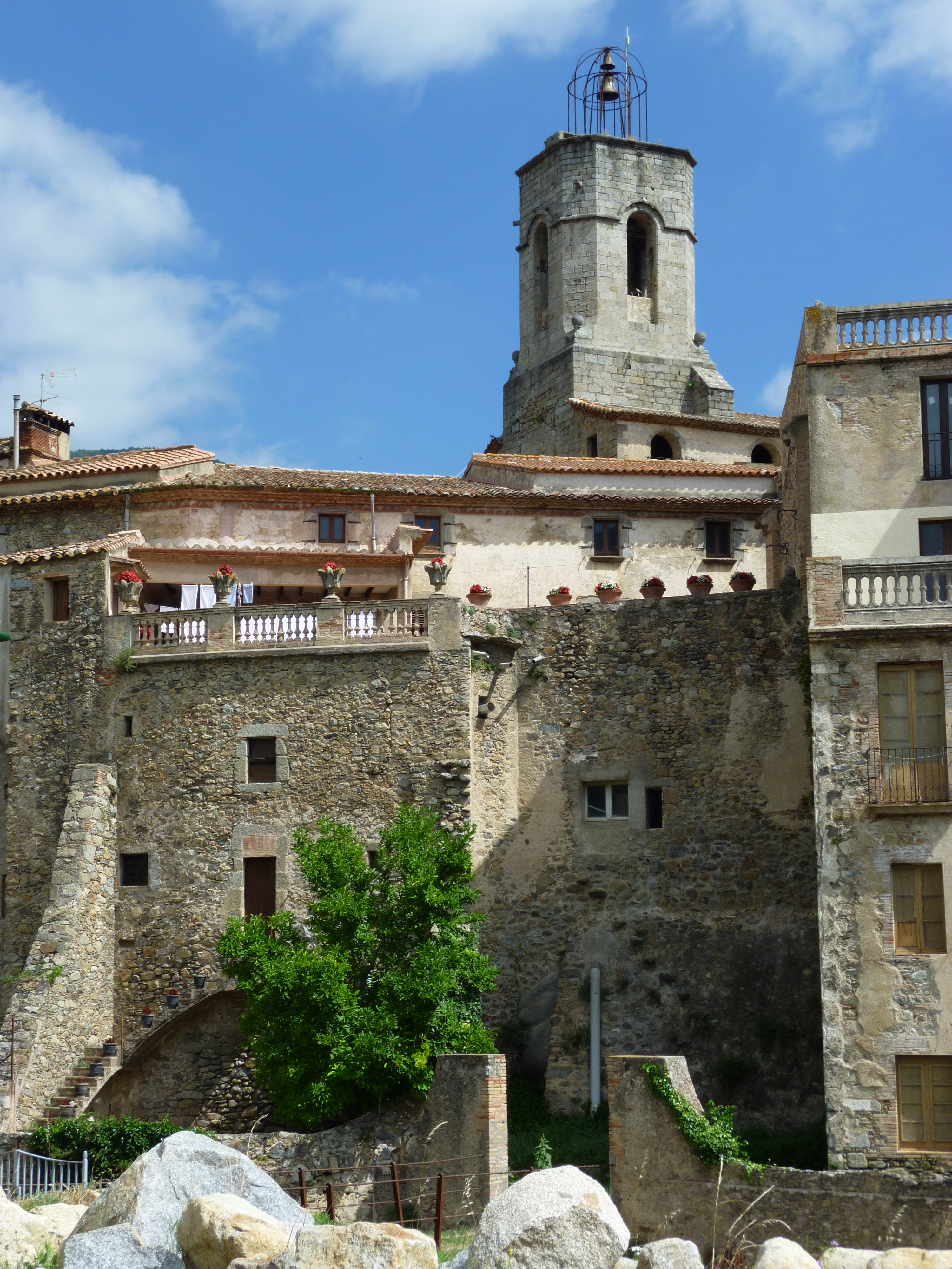 View of Maçanet de Cabrenys (Alt Empordà, Catalonia, Europe)